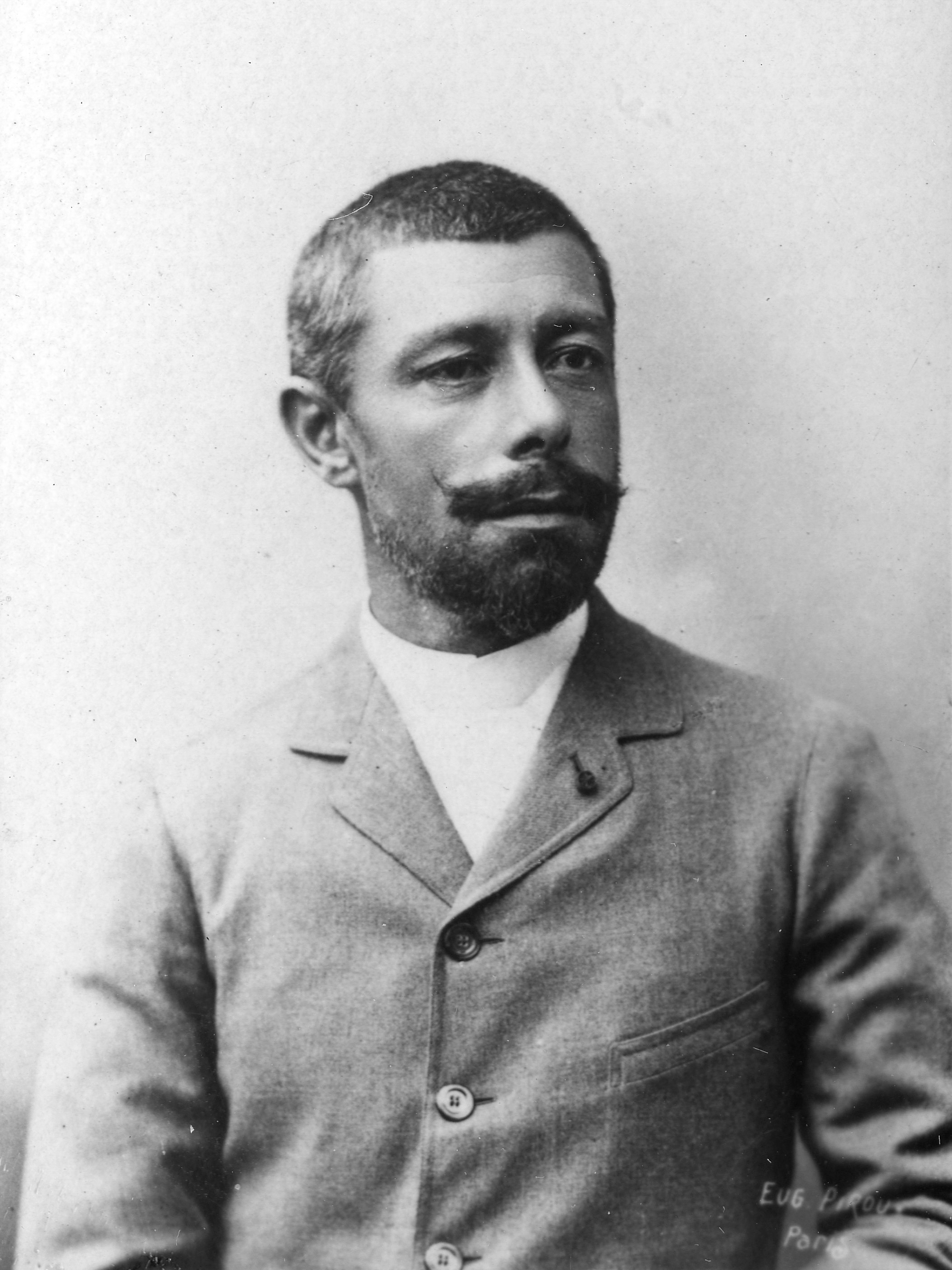 (Louis) Antoine Mizon (1853-1899), French explorer of Africa